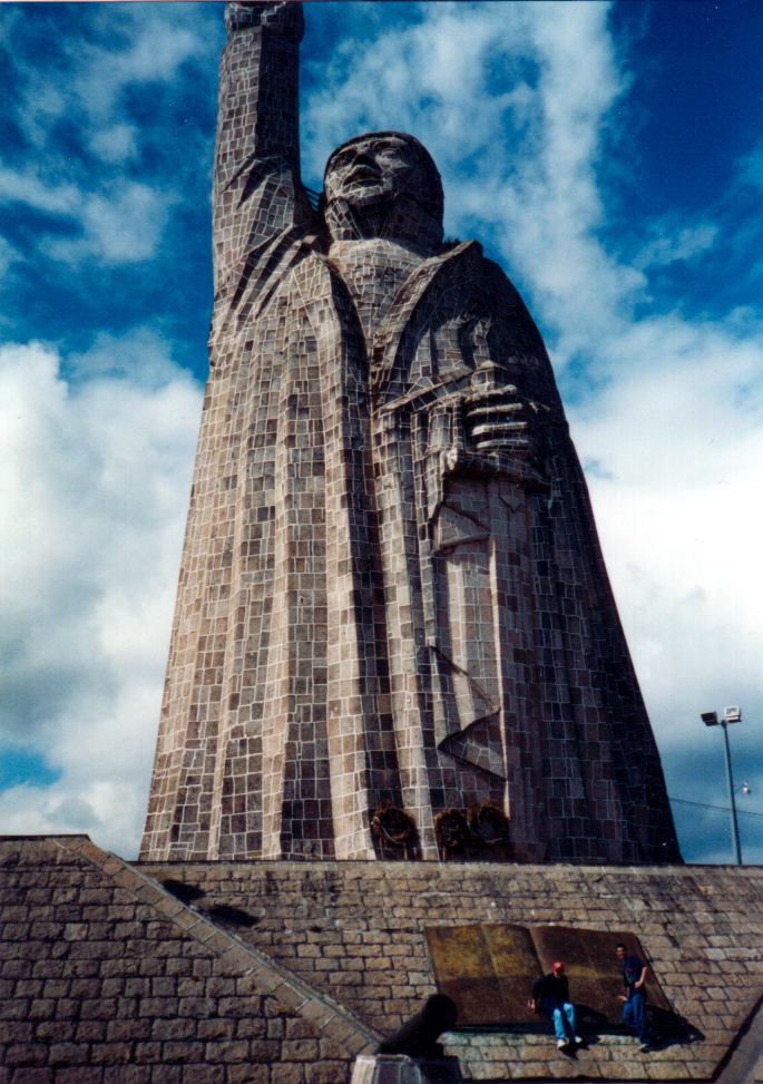 Big copy of Janitzio island statue Jose Morelos